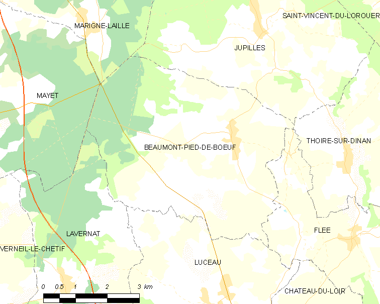 Map of French municipality